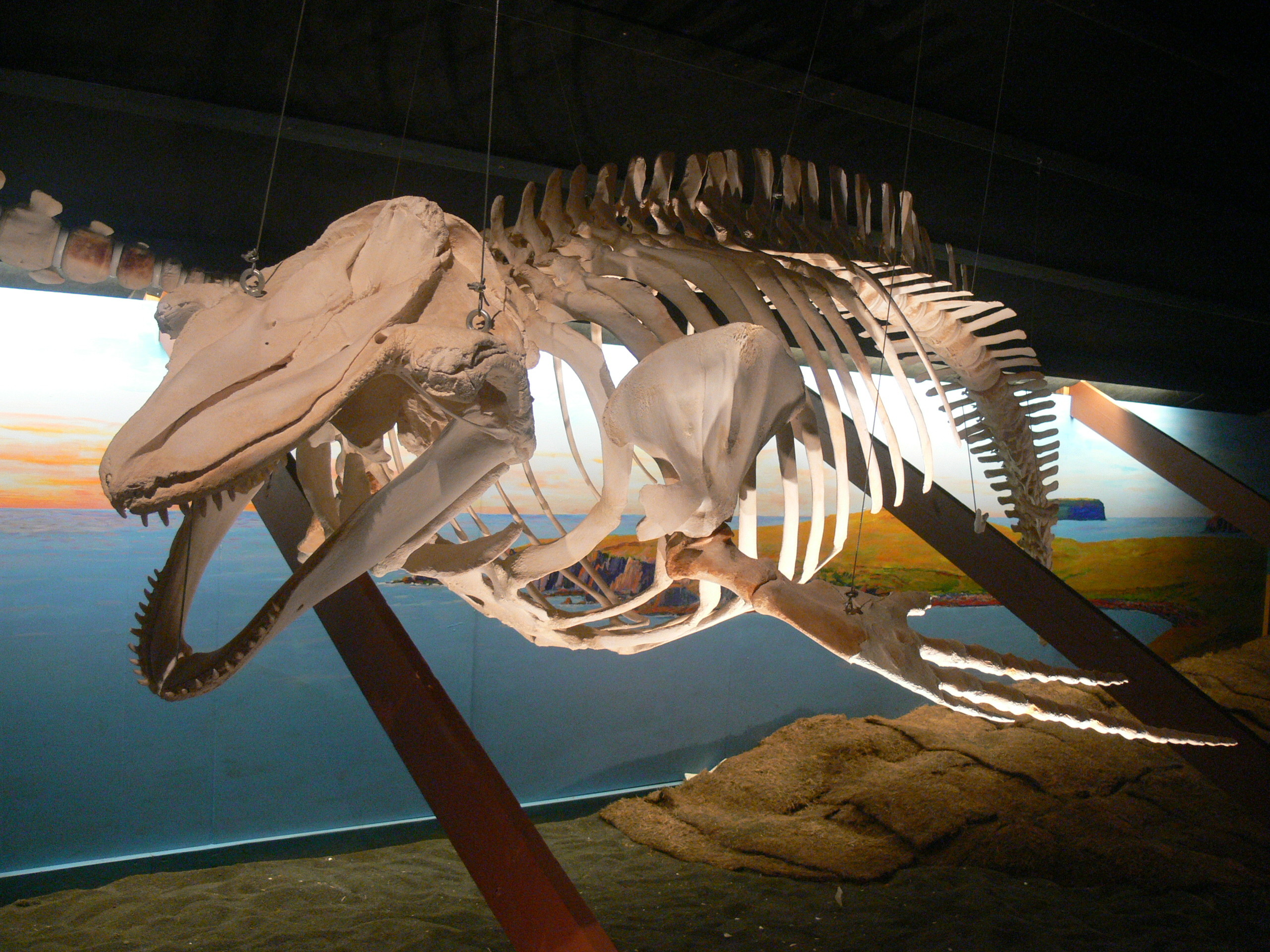 Whale Museum in Húsavík. Skeleton of a Longfinned pilot whale, found 2002 in Höfn ( Iceland ).